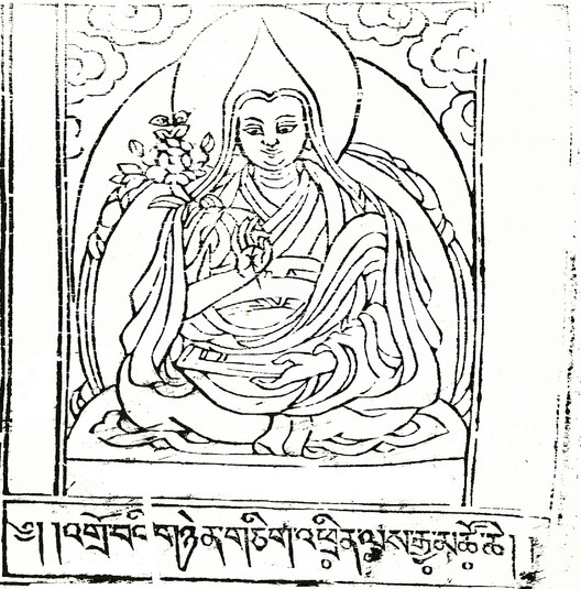 The Twelfth Dalai Lama, Trinle Gyatso